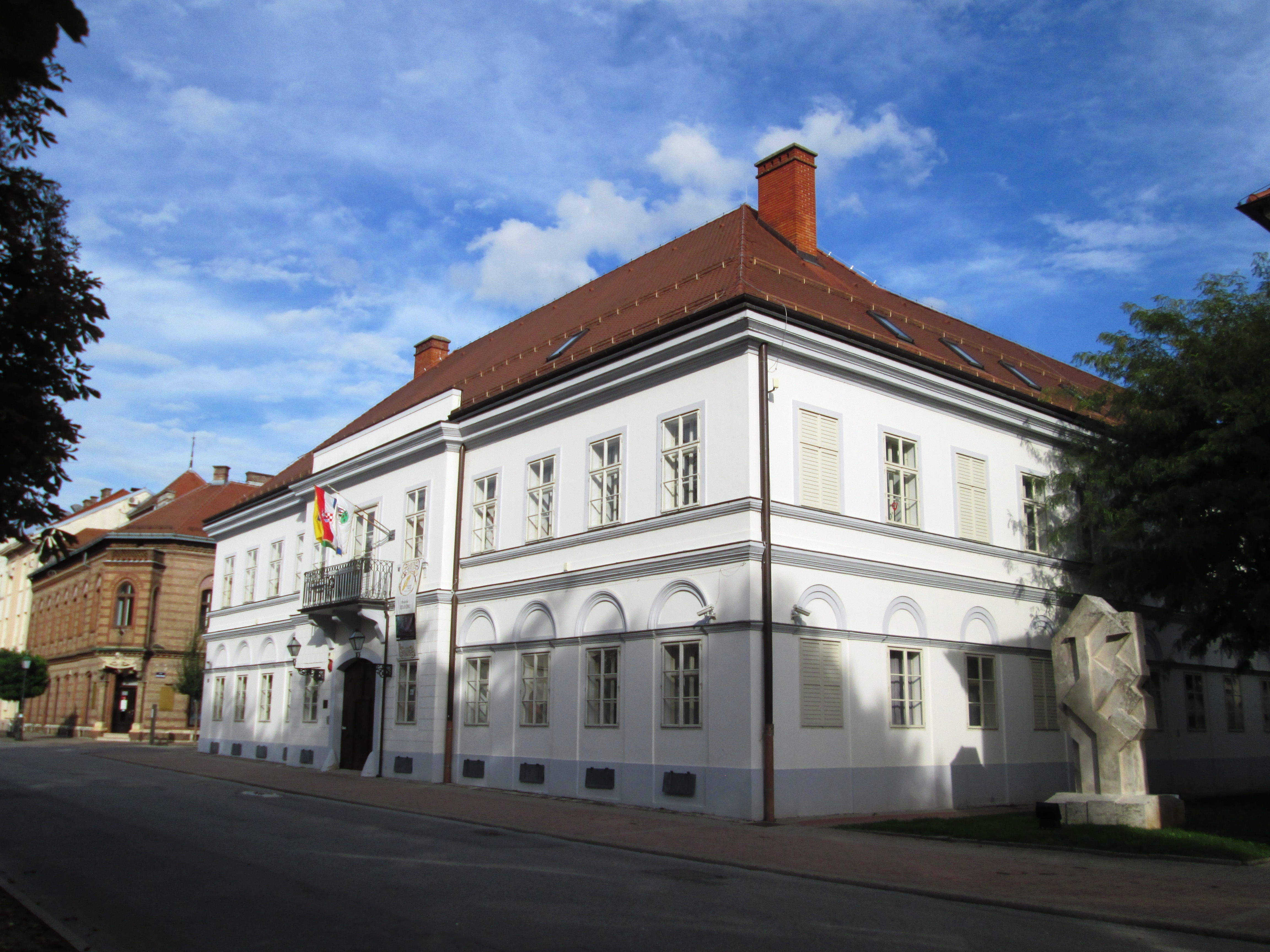 City Museum of Bjelovar, Croatia.This is a a photo of a cultural heritage in Croatia with ID:Z-2453